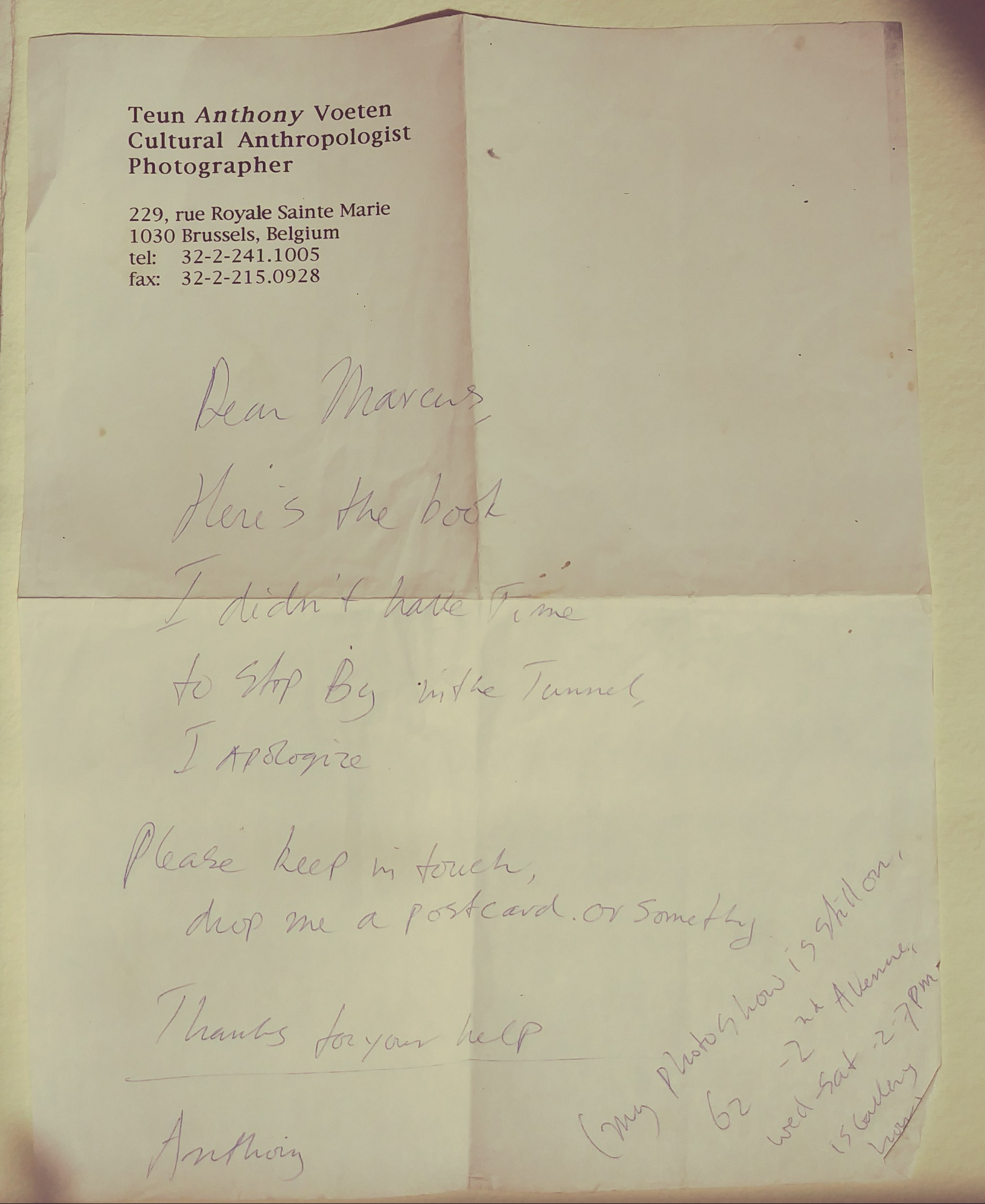 Teun Voeten's note folded into an inscribed copy of his book Tunnelmensen ("Tunnel People): "Dear Marcus, Here's the book I didn't have time to stop By the Tunnel, I apologize Please keep in touch, drop me a postcard or something Thanks for your help Anthony (My photo show is still on, 62 2nd Avenue Wed - Sat 2 - 7 PM - 15 gallery [...]" The inscribed title page of the copy this letter was tucked into is here